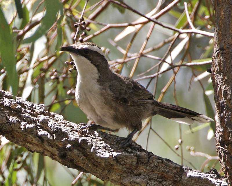 White-browed Babbler Pomatostomus superciliosus Race gilgandra (Pomatostomus superciliosus gilgandra) Capertee Valley,Blue Mountains, NSW, Australia 10th. February 2008 690V1863